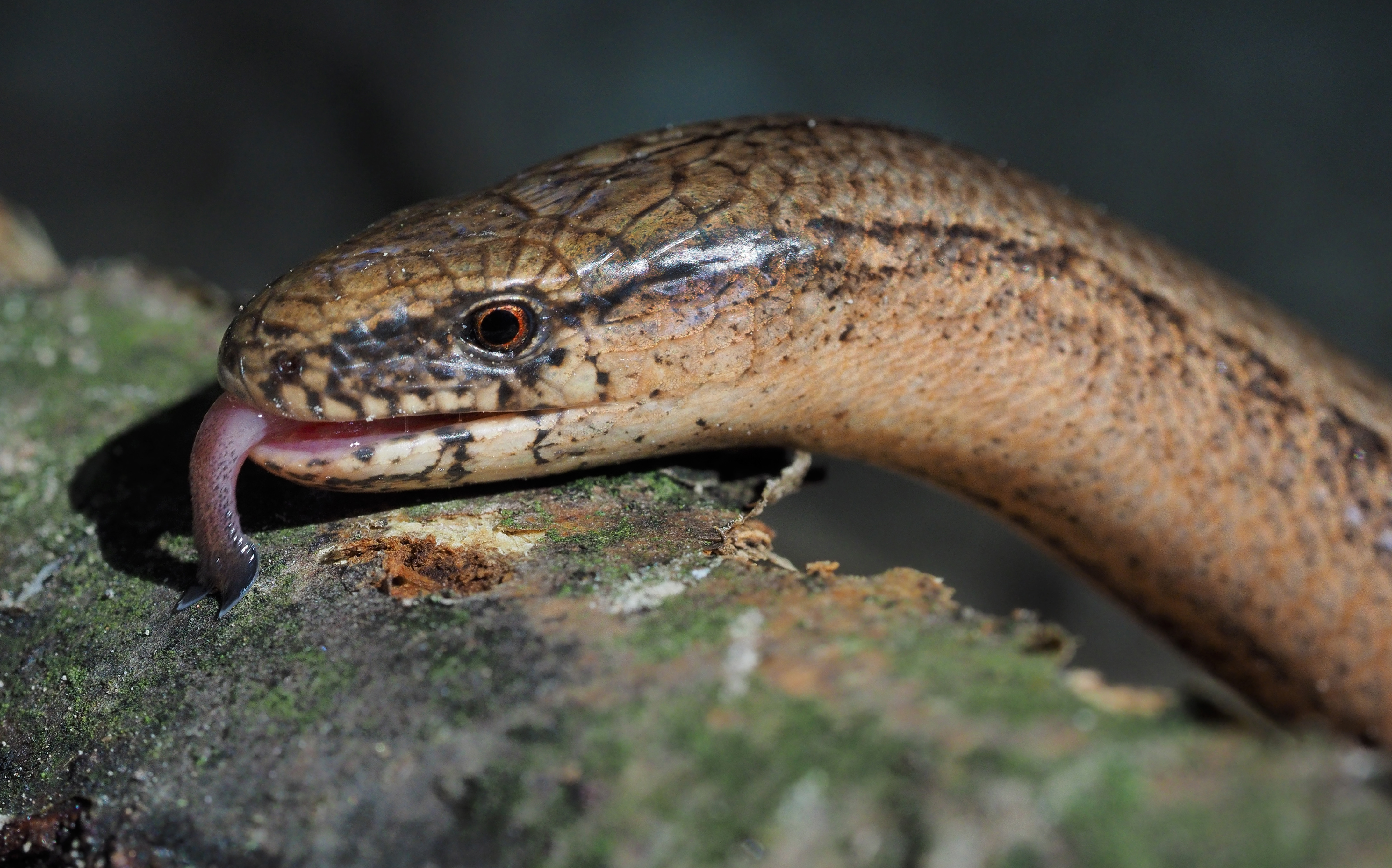 Common slowworm (Anguis fragilis), size around 40-45 cm. Location: Golovec, Ljubljana, Slovenia. Српски (ћирилица): Слепић (Anguis fragilis), дужине око 40-45 цм, Головец код Љубљане, Словенија This photograph was taken with an Olympus E-M1